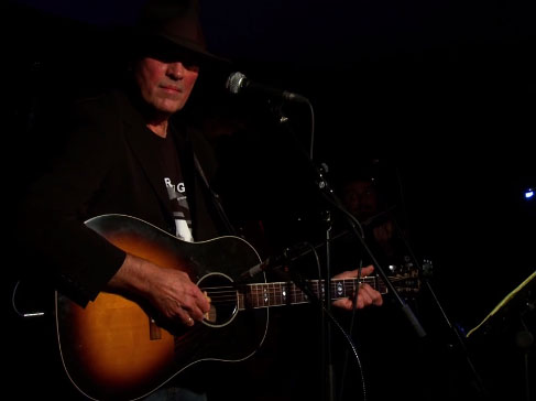 Eric Andersen live in Norderstadt, Germany Sept 2013